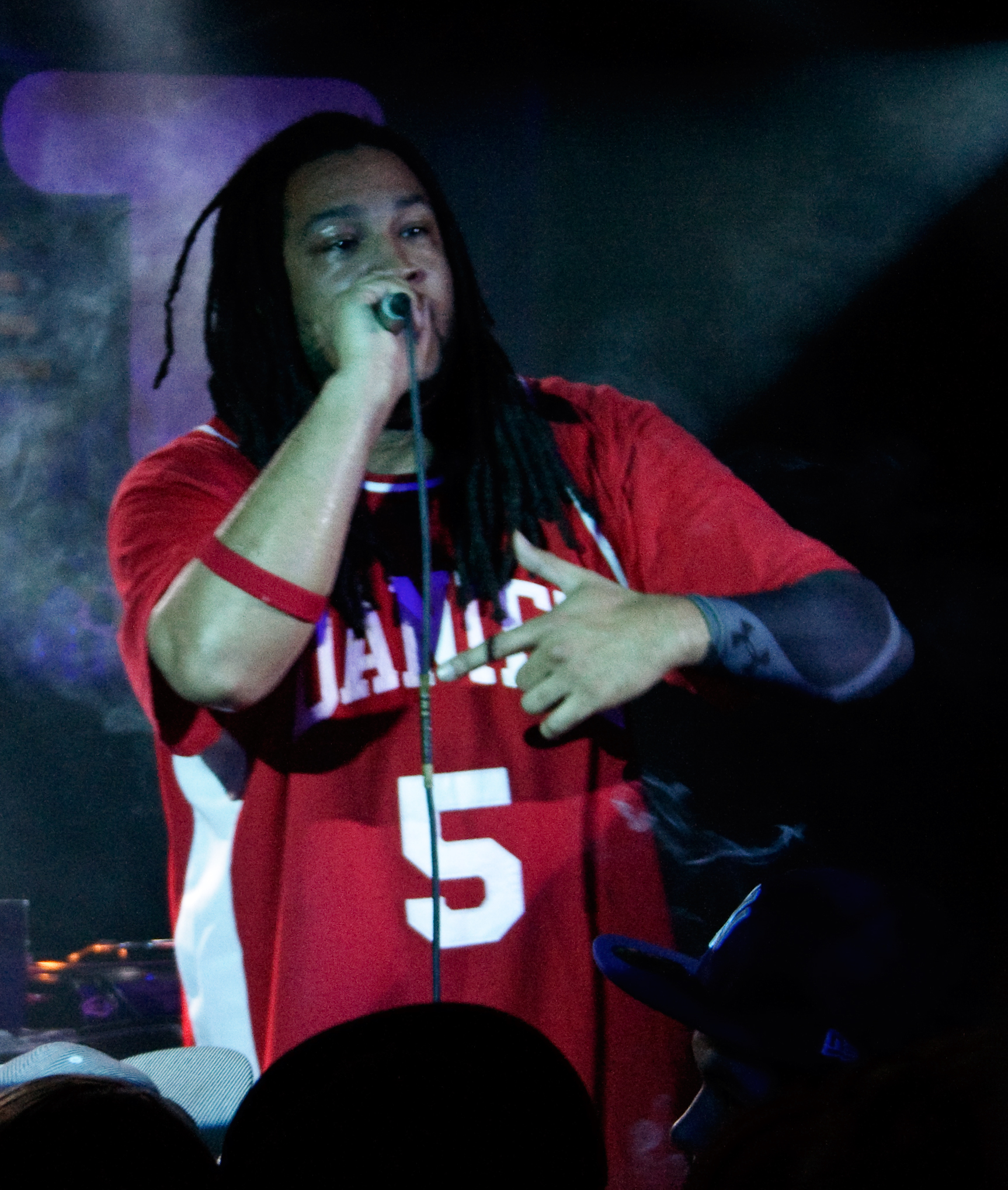 Akrobatik performing at Rust, Copenhagen, Denmark.